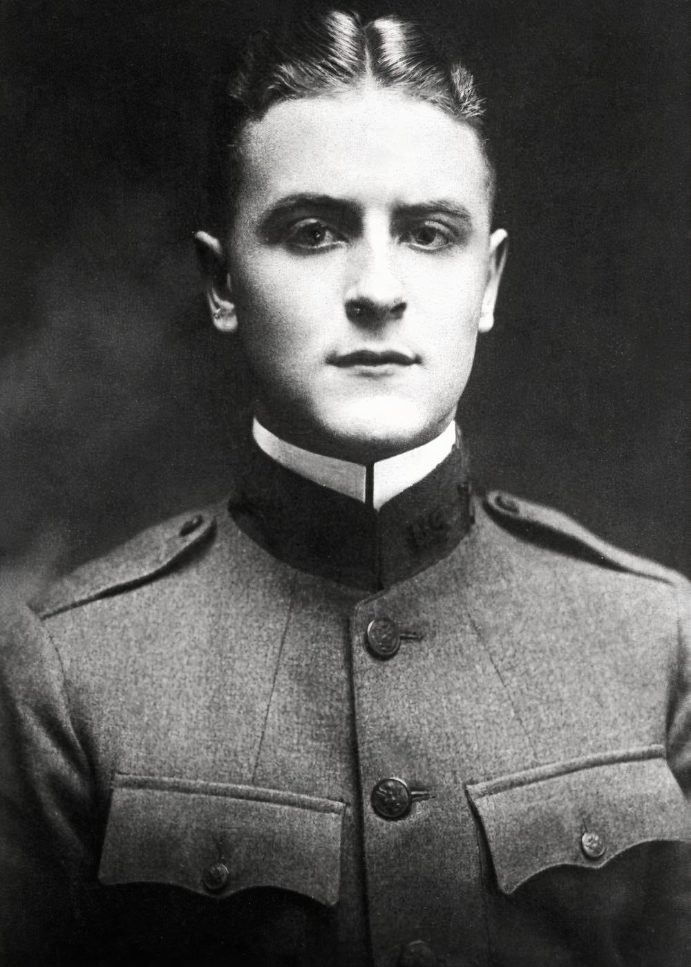 American writer F. Scott Fitzgerald wearing his World War I-era army uniform, circa November 1917. After being romantically spurned by socialite Ginevra King and placed on academic probation by Princeton University, a heart-broken Fitzgerald decided that he wanted "to die." Wishing to fulfill a self-constructed narrative of a promising young writer whose life was cut short by his death in the Great War, Fitzgerald enlisted in the U.S. Army and was commissioned as a Lieutenant. He purchased a uniform tailored by Brooks Brothers and had stoic pictures of himself wearing the uniform sent to King and several publications such as Prince (a Princeton periodical). However, Fitzgerald did not obtain his desired opportunity to perish in the trenches after Ginevra King's rejection. Instead, while stationed in the American South, Fitzgerald wore his tailored Brooks Brothers uniform to a soirée in Montgomery, Alabama, where he encountered the vivacious Zelda Sayre, his future spouse. Zelda later would recall that—upon meeting the uniformed Fitzgerald—"he smelled like new goods."